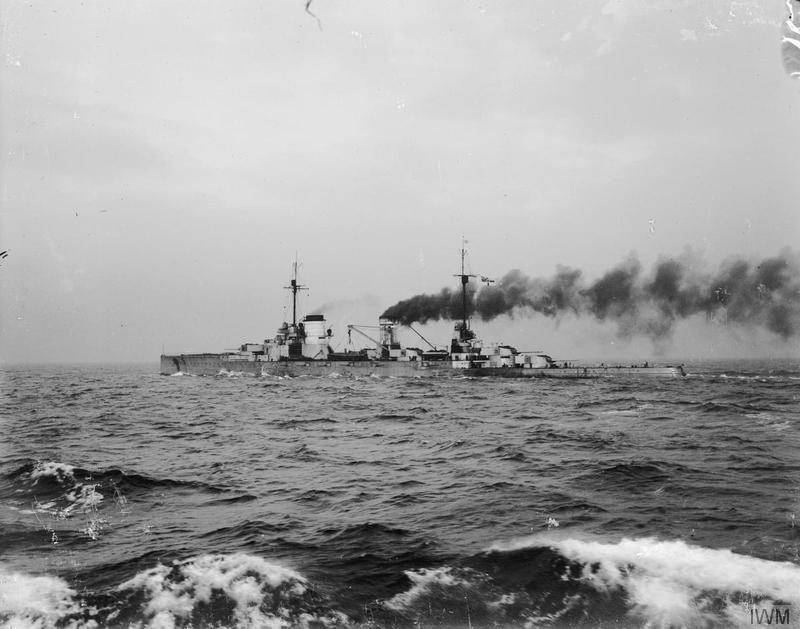 The Surrender of the German High Seas Fleet, November 1918 German battle cruiser SMS SEYDLITZ arriving at Rosyth.